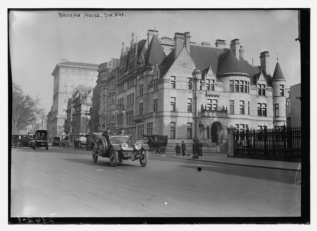 Isaac Vail Brokaw house on Fifth Avenue in Manhattan circa 1913